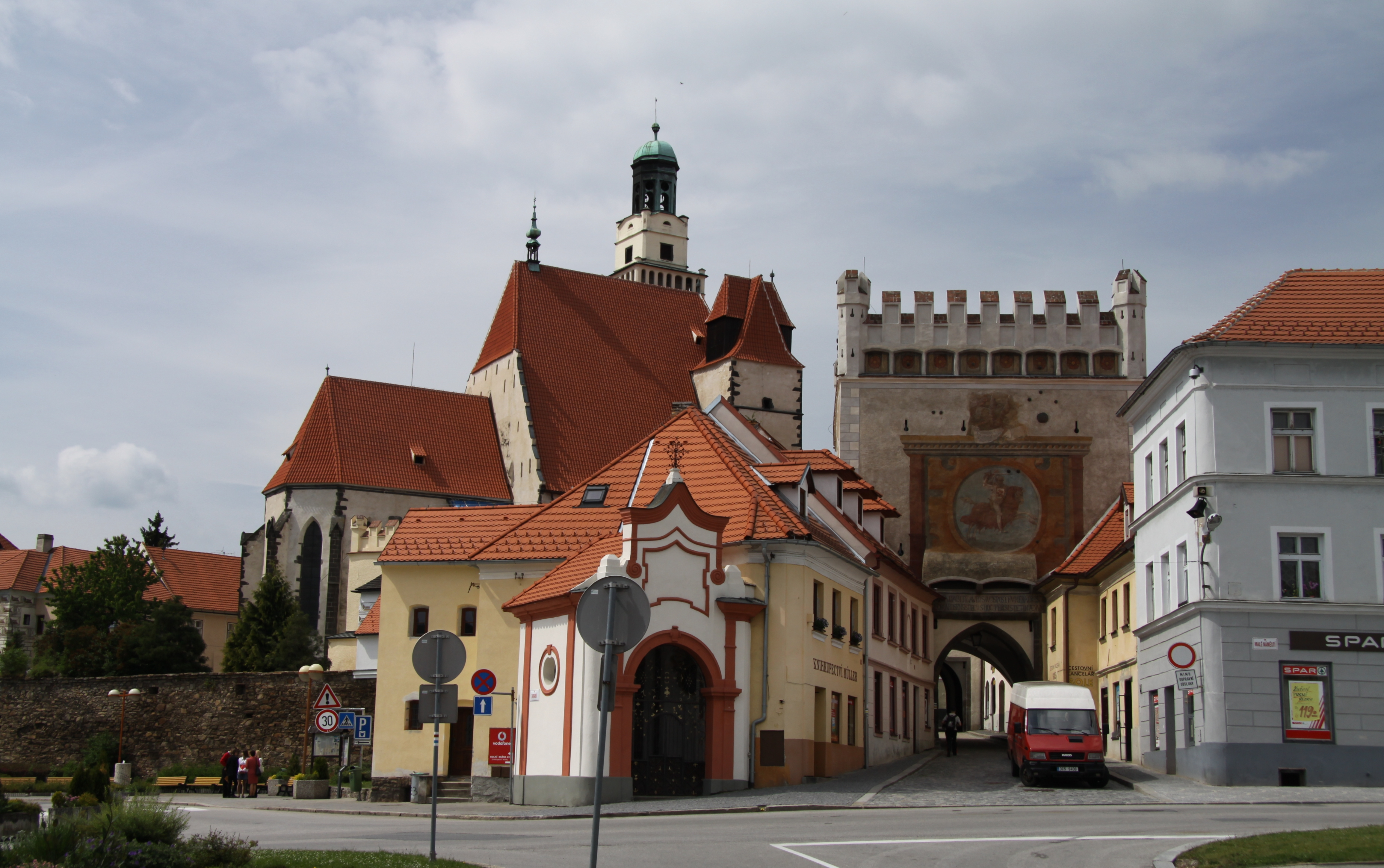 St. James' Church in Prachatice, Prachatice District, Czech Republic